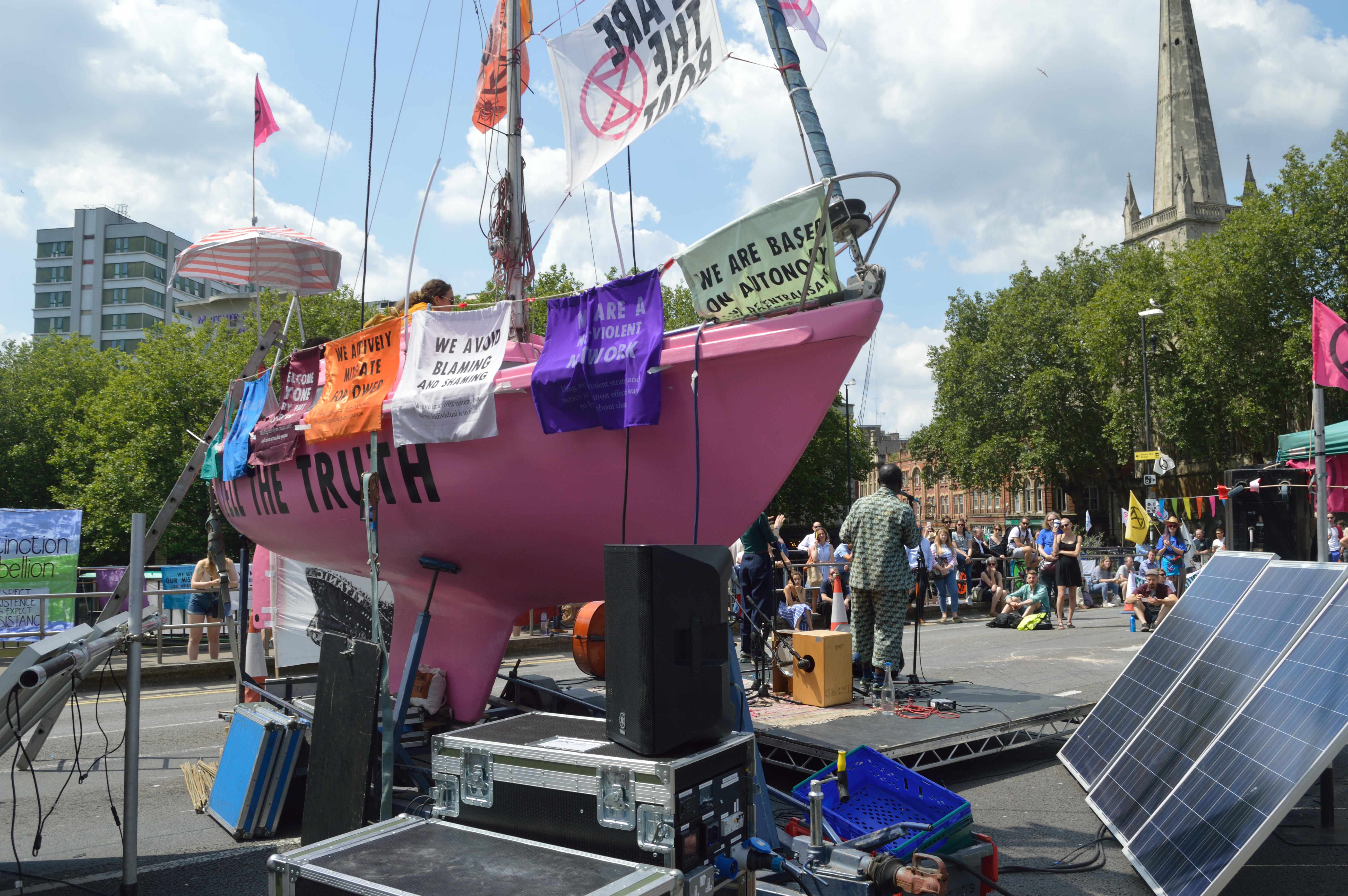 Extinction Rebellion in Bristol, on Bristol Bridge. The pink boat is named after the murdered Honduran environmental activist Jeannette Kawas, and was previously at the Glastonbury Festival.